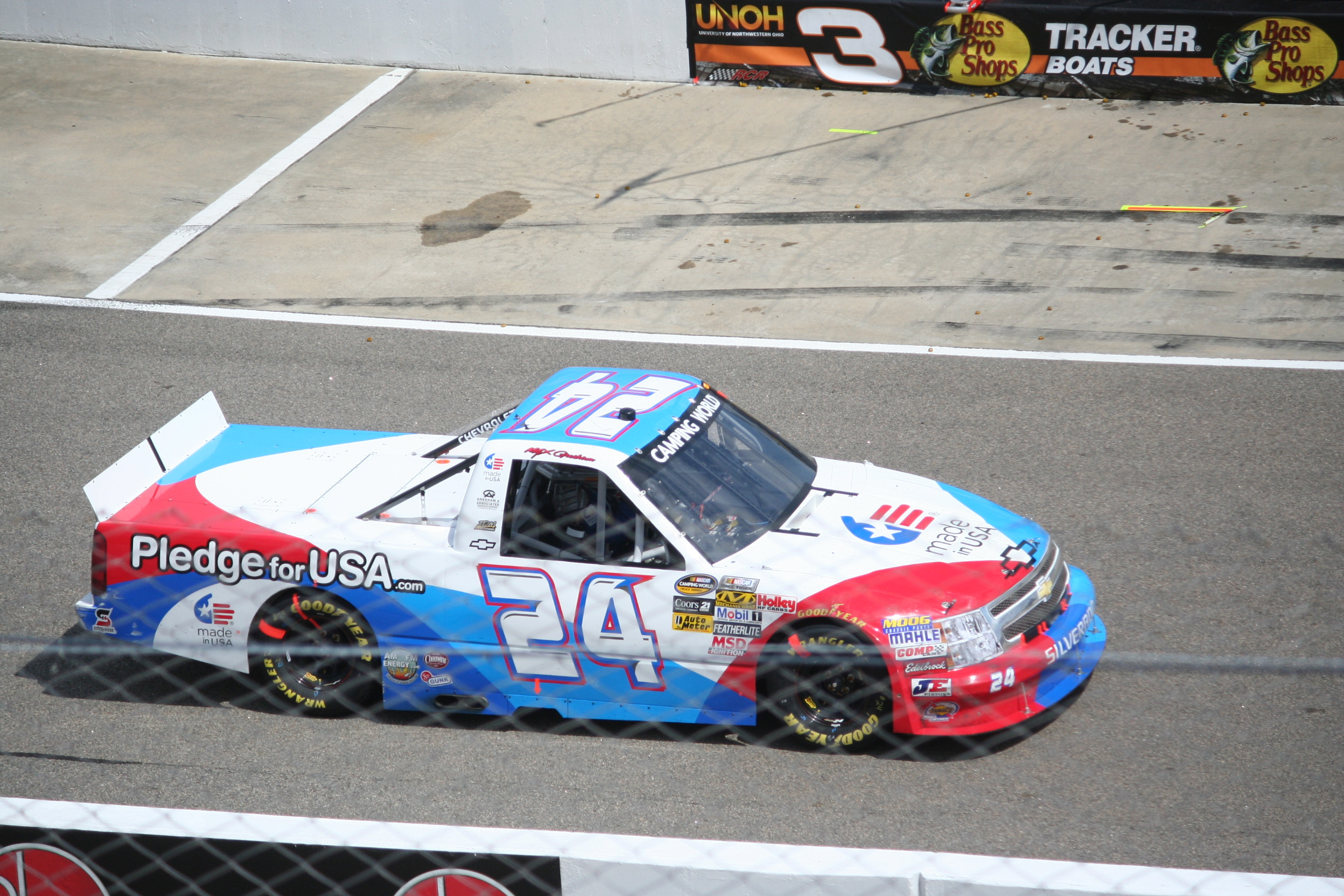 Max Gresham drives the No. 24 Joe Denette Motorsports Chevrolet on pit road at Rockingham Speedway during the Good Sam Roadside Assistance 200 on April 15, 2012.